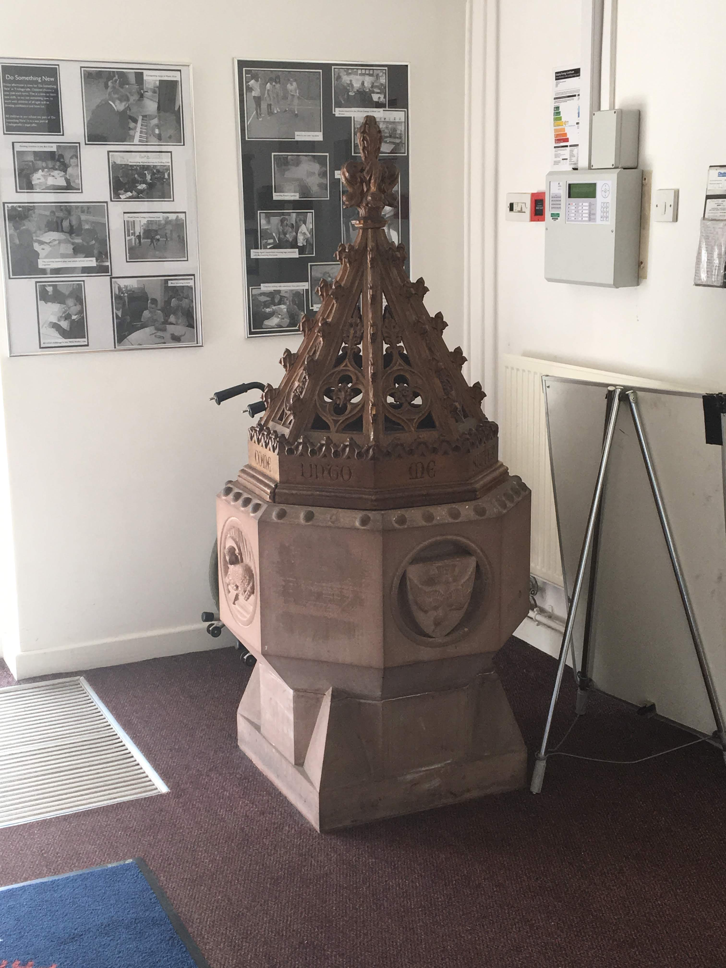 Baptism font belonging to St James, the Great in the entrance to Tredegarville Primary School. The font was moved following the closure of the church next door.